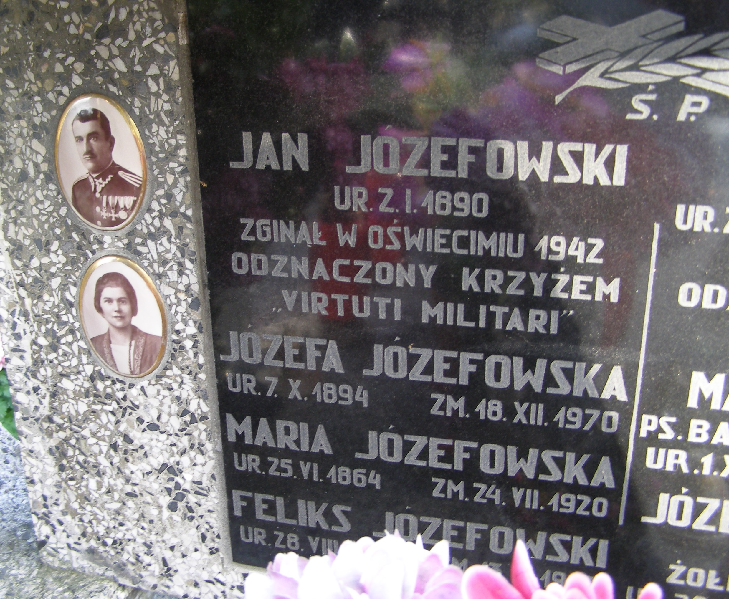 Symbolic tombstone of Jan Józefowski at the parish cemetery in Tęgoborza